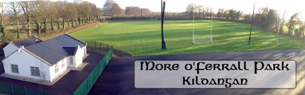 More O'Ferrall Park Kildangan, Taken in 2010. Home of Kildangan GAA